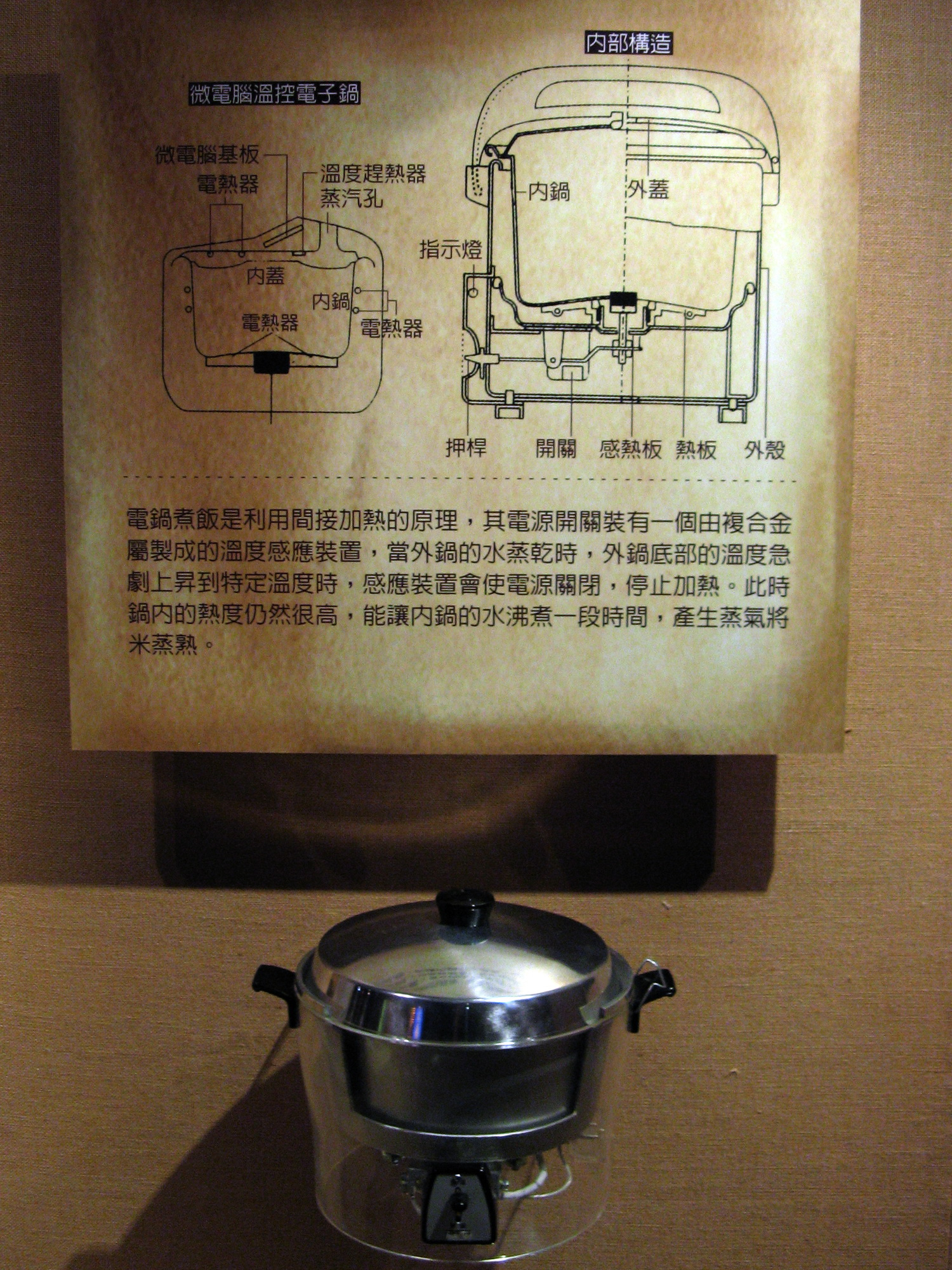 A display showing the basic operating principle of a rice cooker at the National Museum of Natural Science, Taiching City, Taiwan.